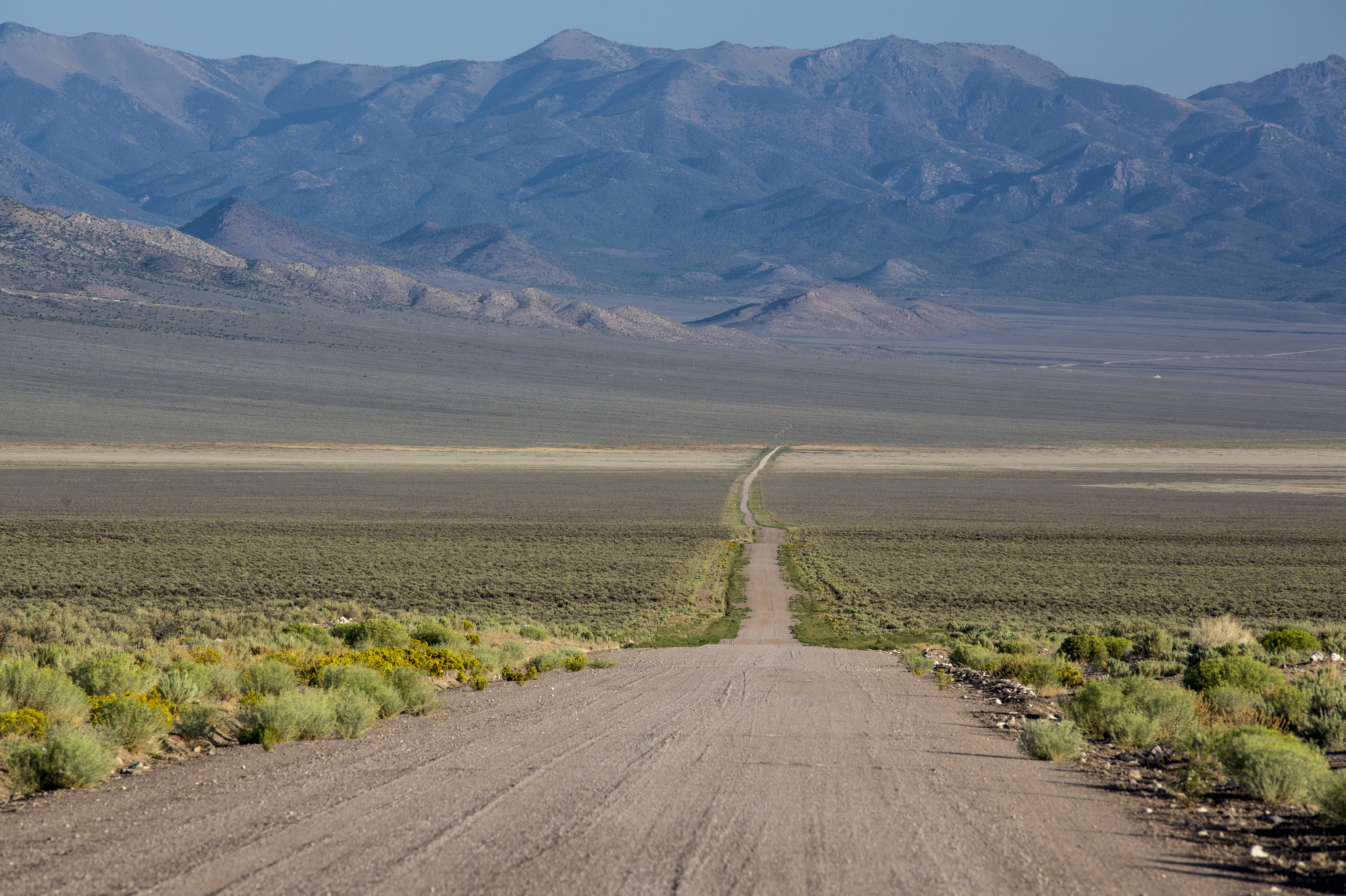 BLM Photo Bob Wick